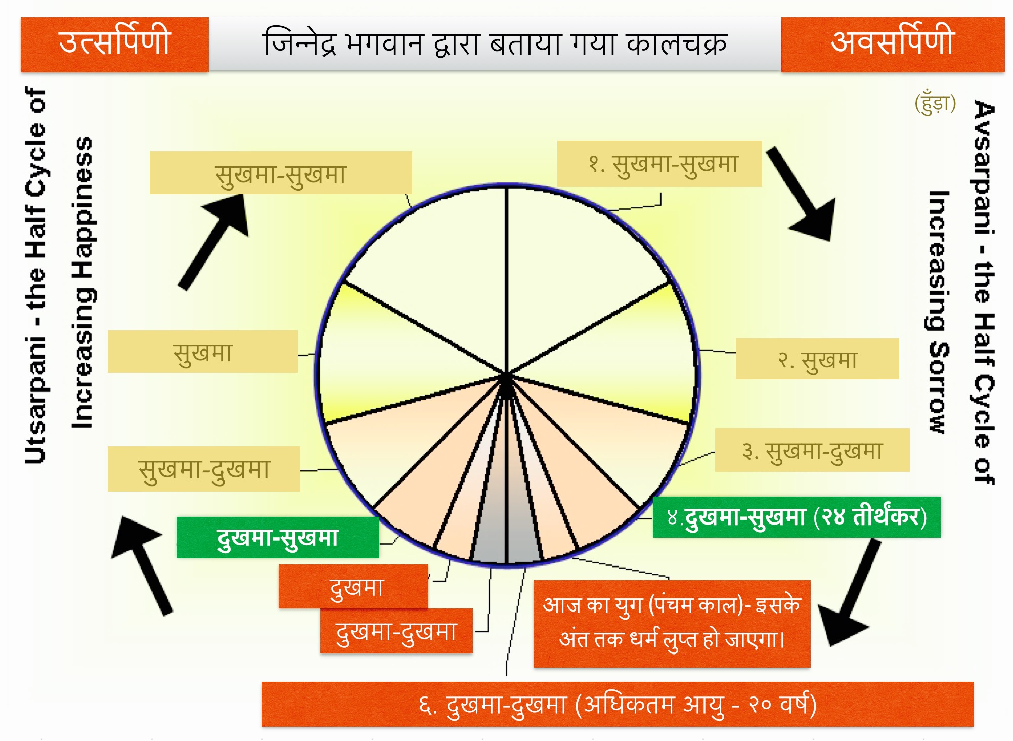 Jain cosmic time cycle (in Hindi). It was created using an image already in public domain (By Anishshah19 at en.wikipedia [Public domain], from Wikimedia Commons)